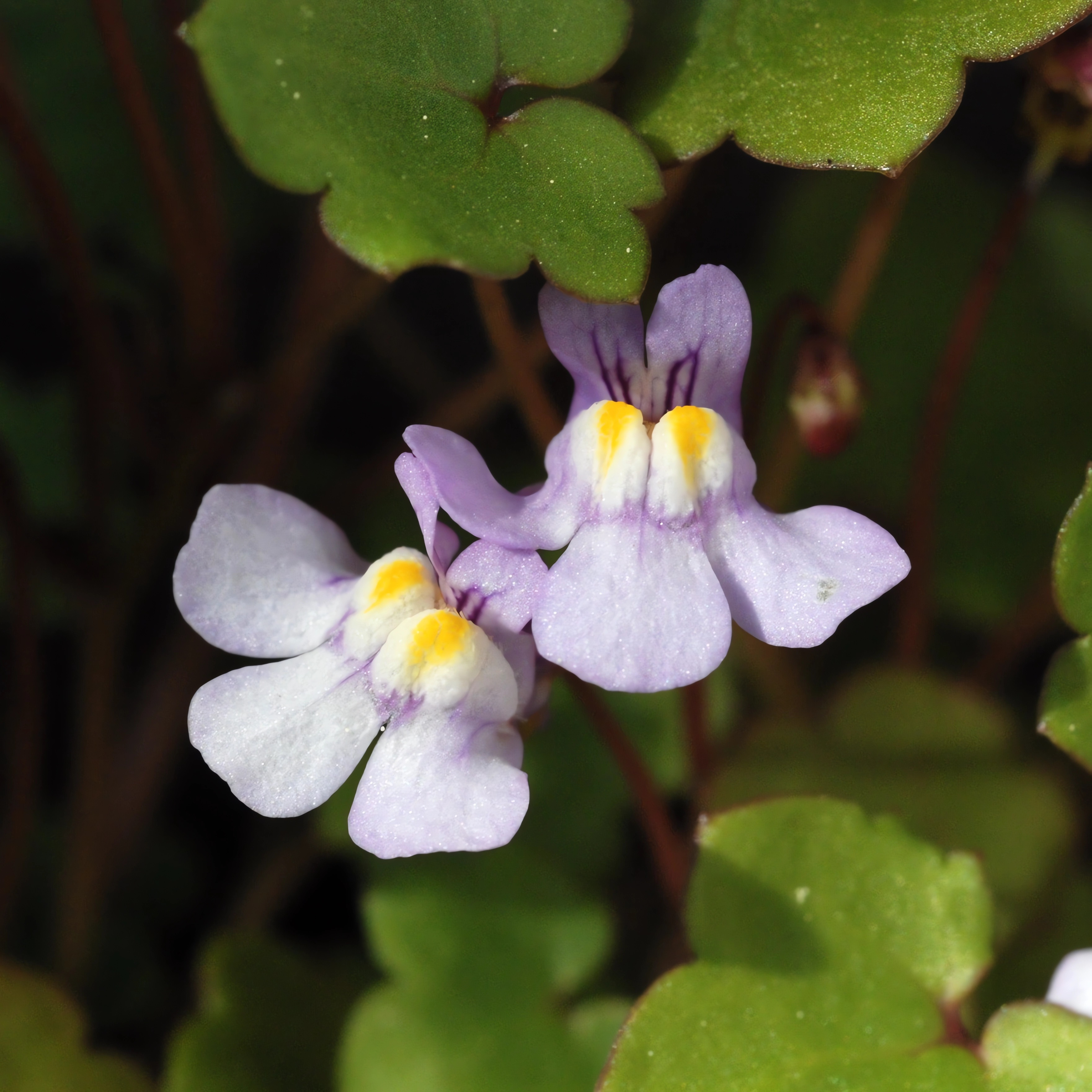 Ivy-leaved Toadflax (Cymbalaria muralis), close up photography